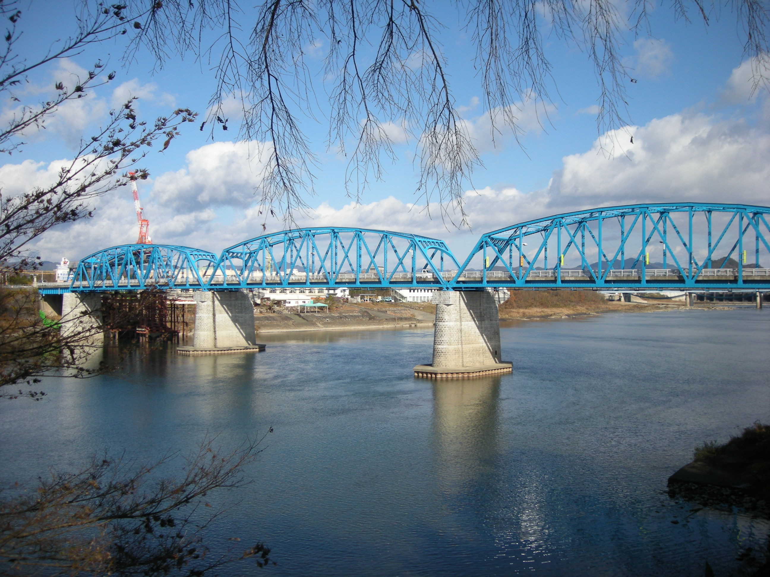 Ohotabashi bridge（太田橋）